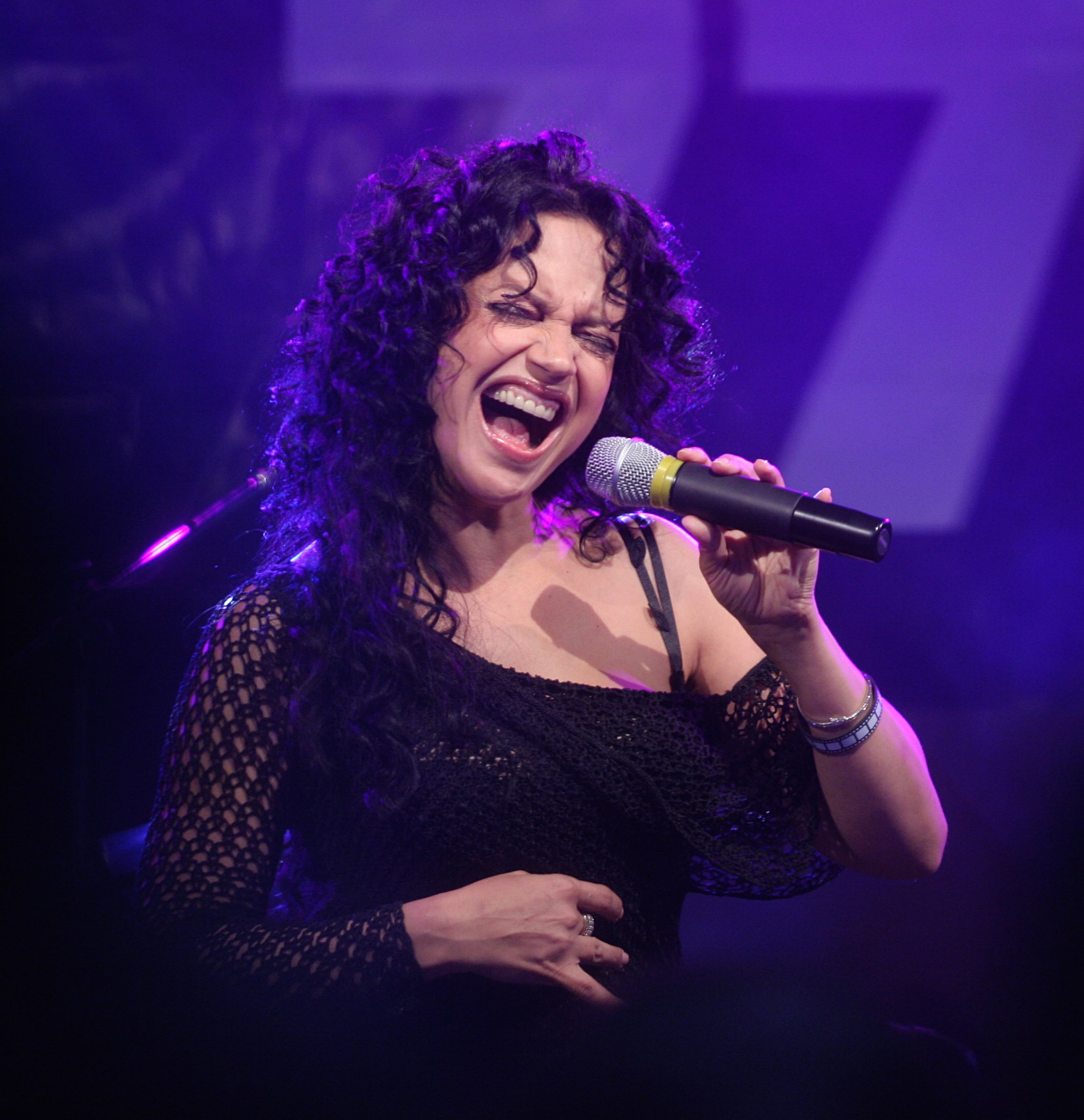 Lucie Bílá singing at charity concert for Konto Bariéry at 42nd Karlovy Vary International Film Festival